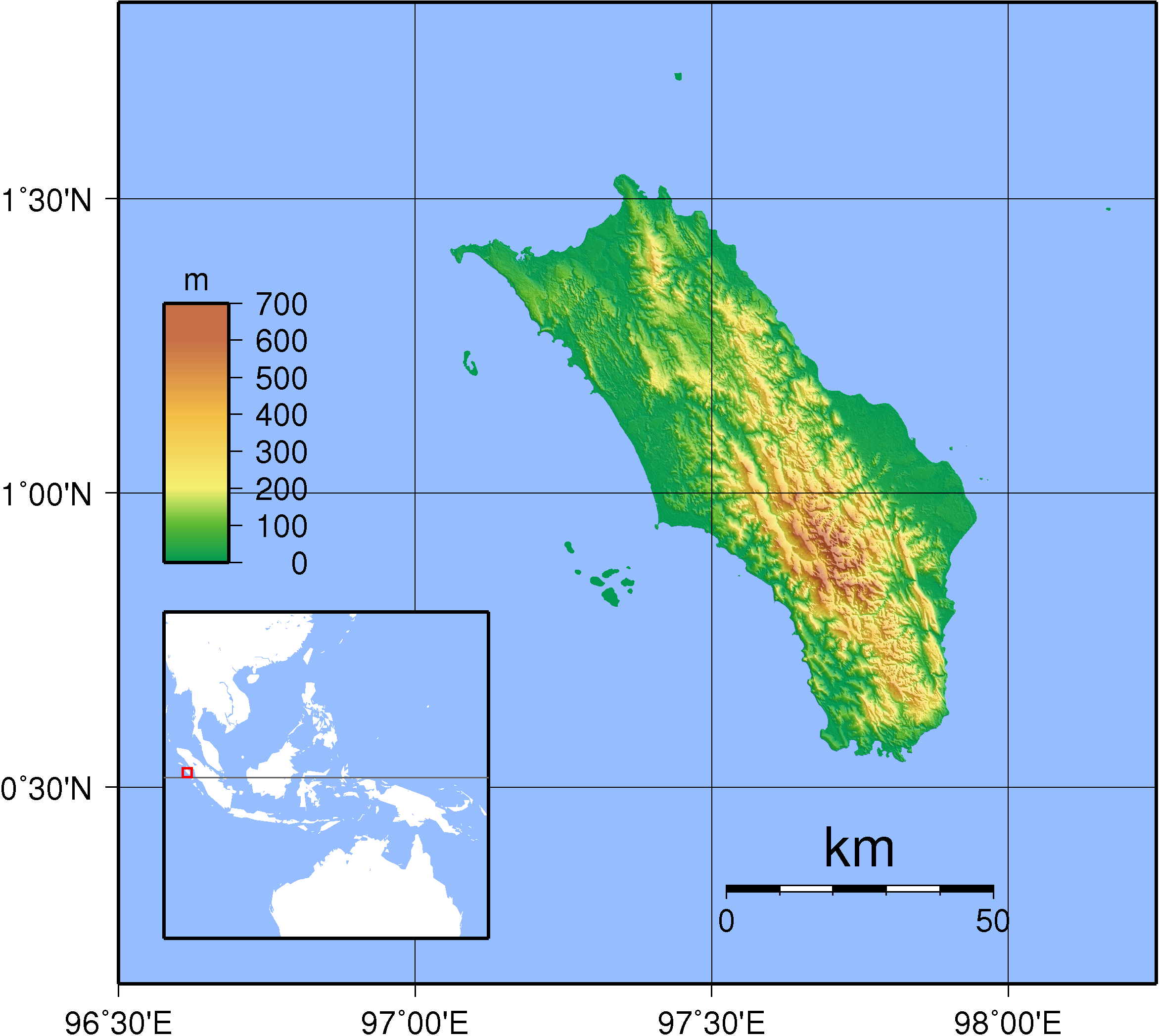 Topographic map of Nias, Indonesia. Created with GMT from SRTM data.